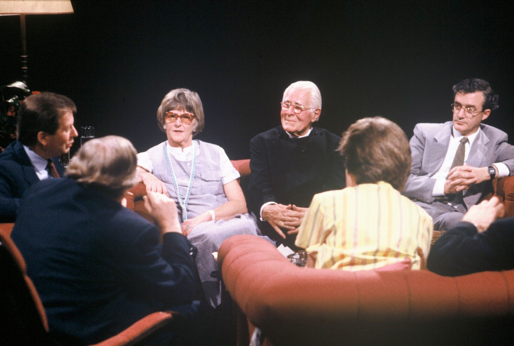 After Dark on 26 June 1987: "Killing With Care". With the host for that week Professor Ian Kennedy (left) were guests (left to right) Charlotte Hough, Lord Soper, Professor John Finnis and others.